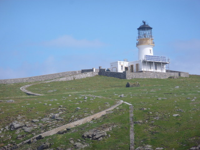 Flannan Isles: the lighthouse from the sea to the south. A view up onto the lighthouse, taking in the steep concrete housing for the railway tracks leading down to the western landing stage. The cliffs here are so severe and weather-prone that the eastern landing, reached along similar tracks running across the picture about halfway up the visible grassed area, is the access point usually more suitable.